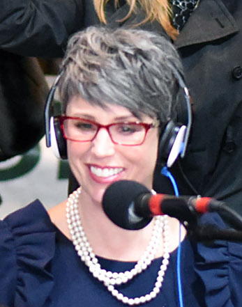 Photo taken at Election Central, Alaska General Election 2018. Election Central was co-hosted by ADN and the Alaska Landmine, and sponsored by GCI and Dittman Resarch. This photo is provided under a Creative Commons Attribution license. Please provide the following credit: "Photo used under Creative Commons license courtesy Paxson Woelber, The Alaska Landmine ."